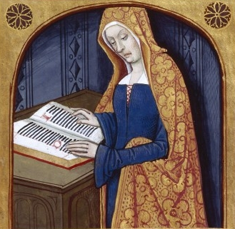 Thisbe.